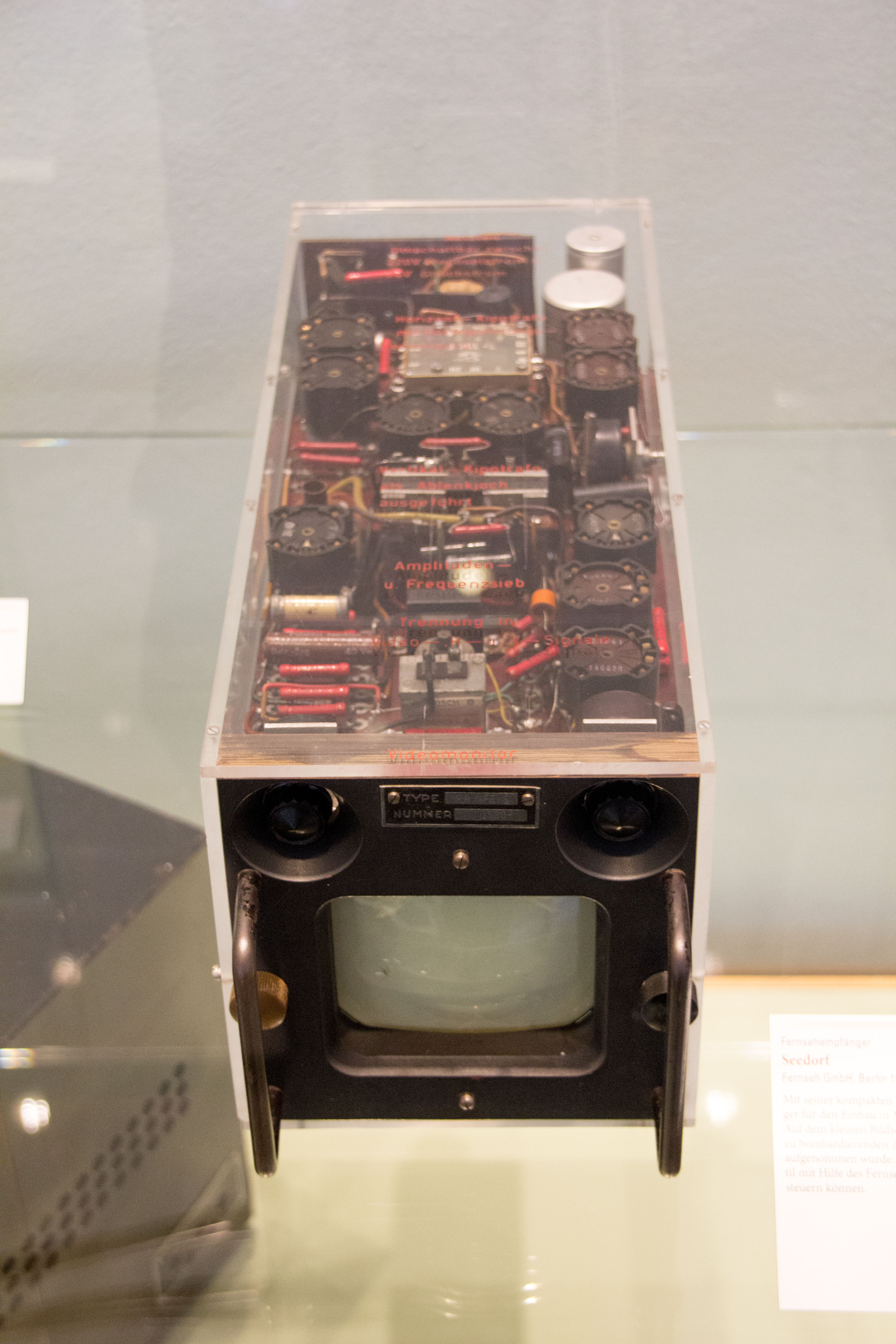 German Museum of Technology, Berlin, Germany. Television receiver. (for military planes) Seedorf. Fernseh GmbH, Berlin 1943